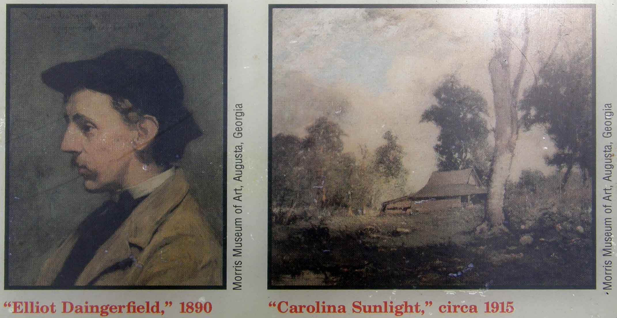 Taken from historic site information sign on public road in Fayetteville, NC